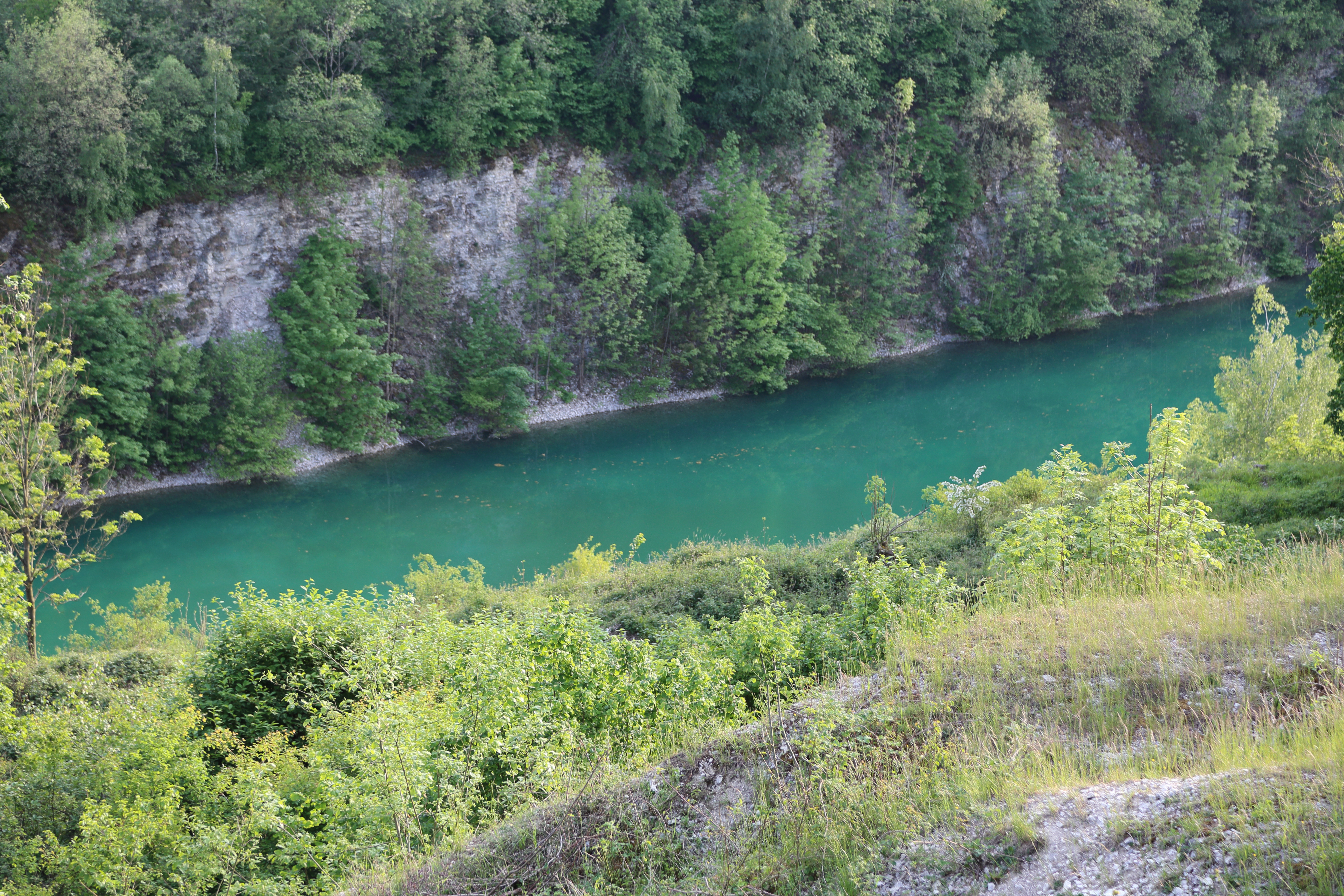 The Canyon within the nature reserve „Quarry in the clover field (Canyon)“ (Naturschutzgebiet „Steinbruch im Kleefeld“ (Canyon)) near Lengerich, Kreis Steinfurt, North Rhine-Westphalia, Germany.